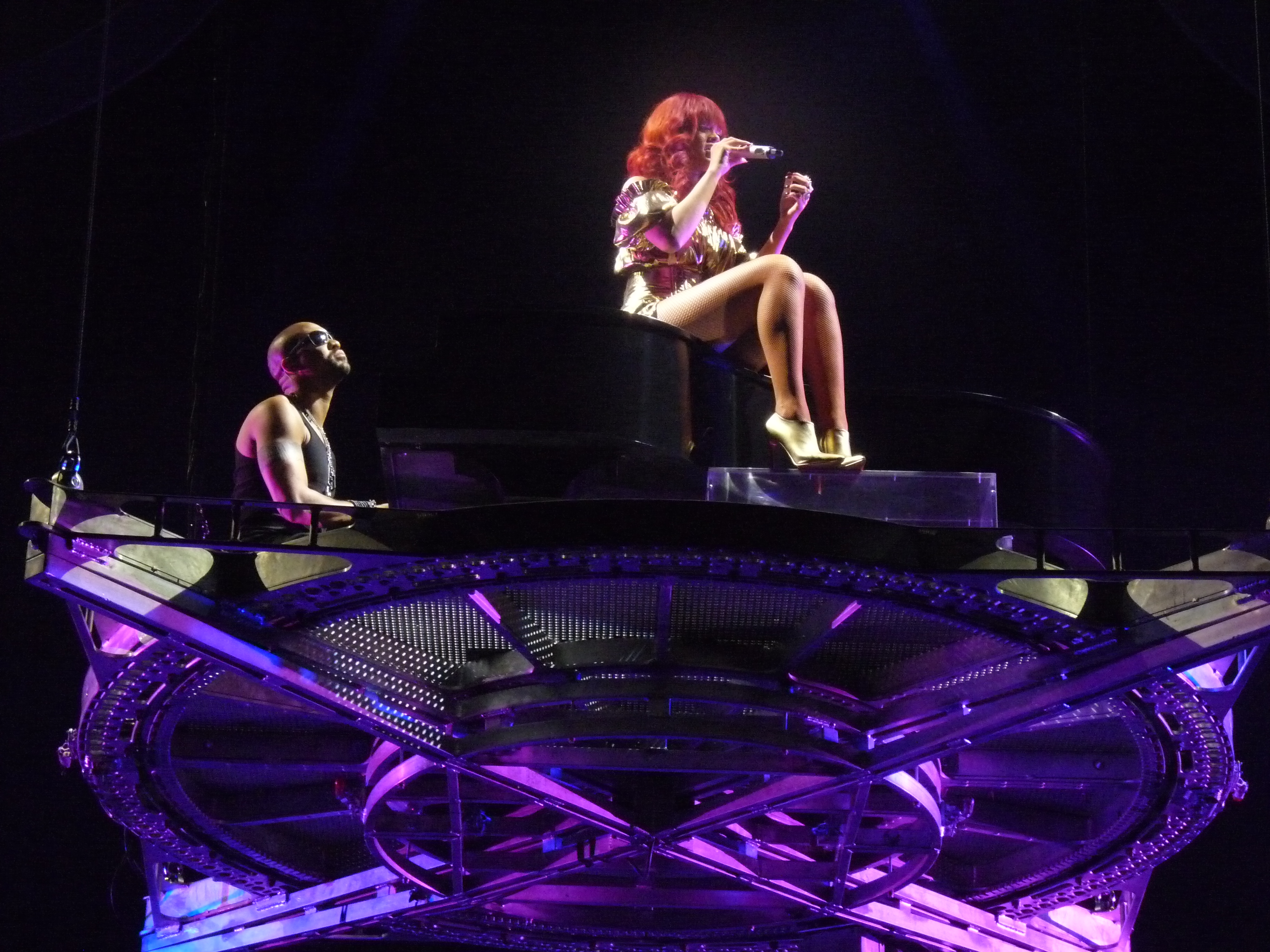 Rihanna live at Bankatlantic Center, Sunrise, Florida, on her tour The LOUD Tour. 14th July 2011